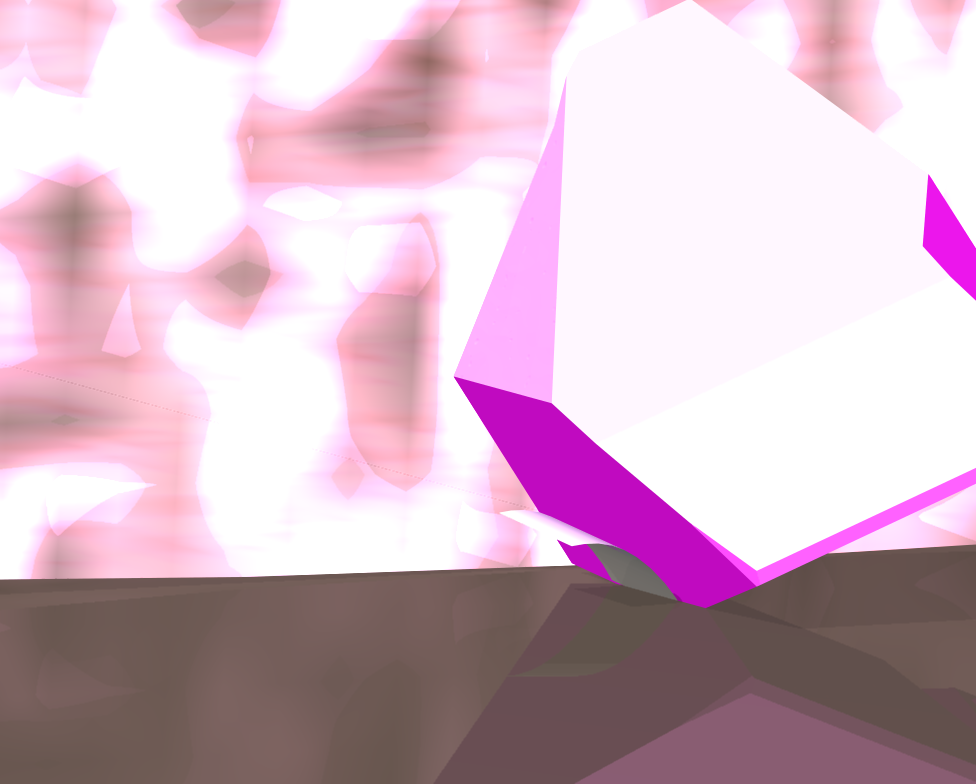 Sawing and separating processes